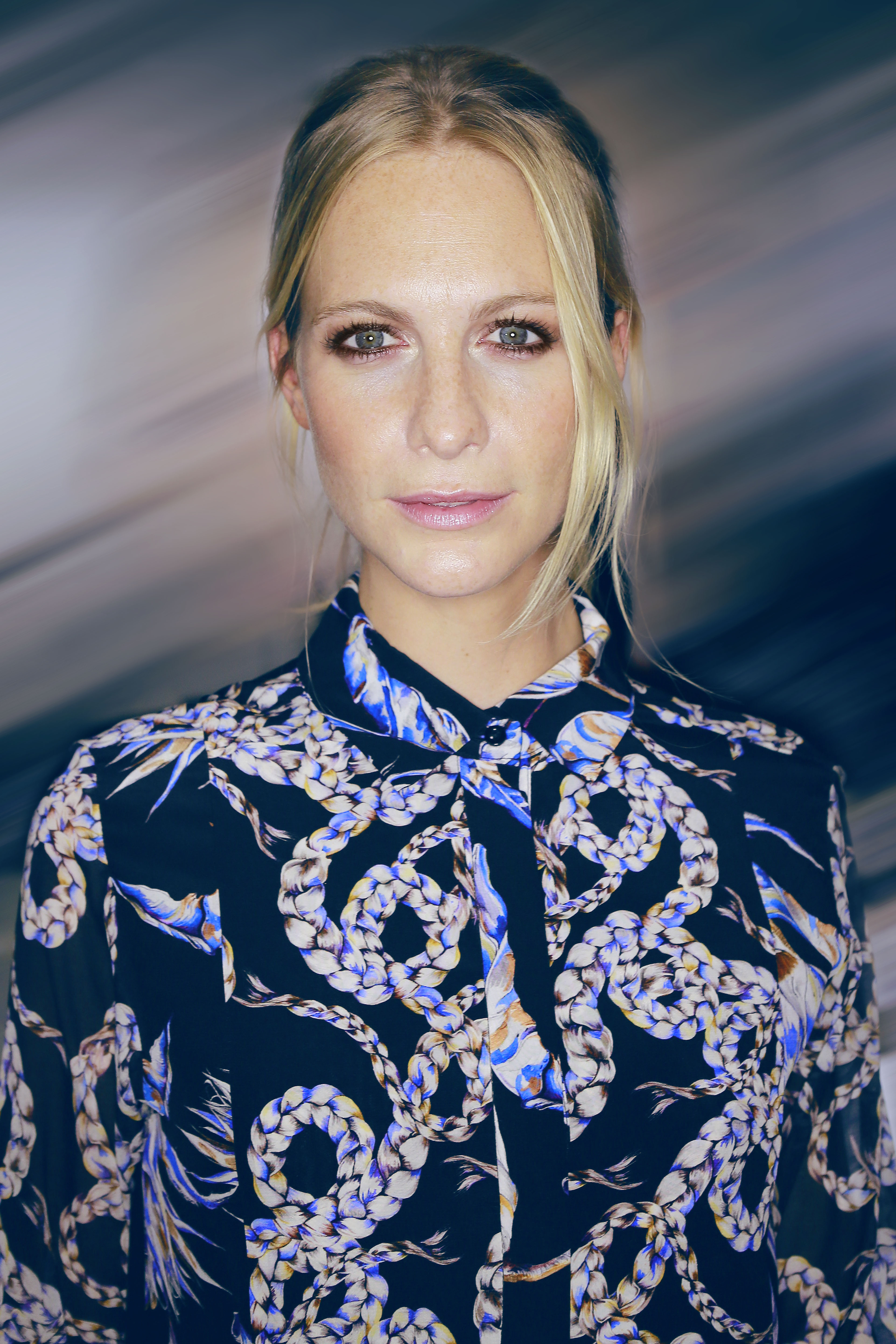 Poppy Delevingne portrait by Walterlan Papetti